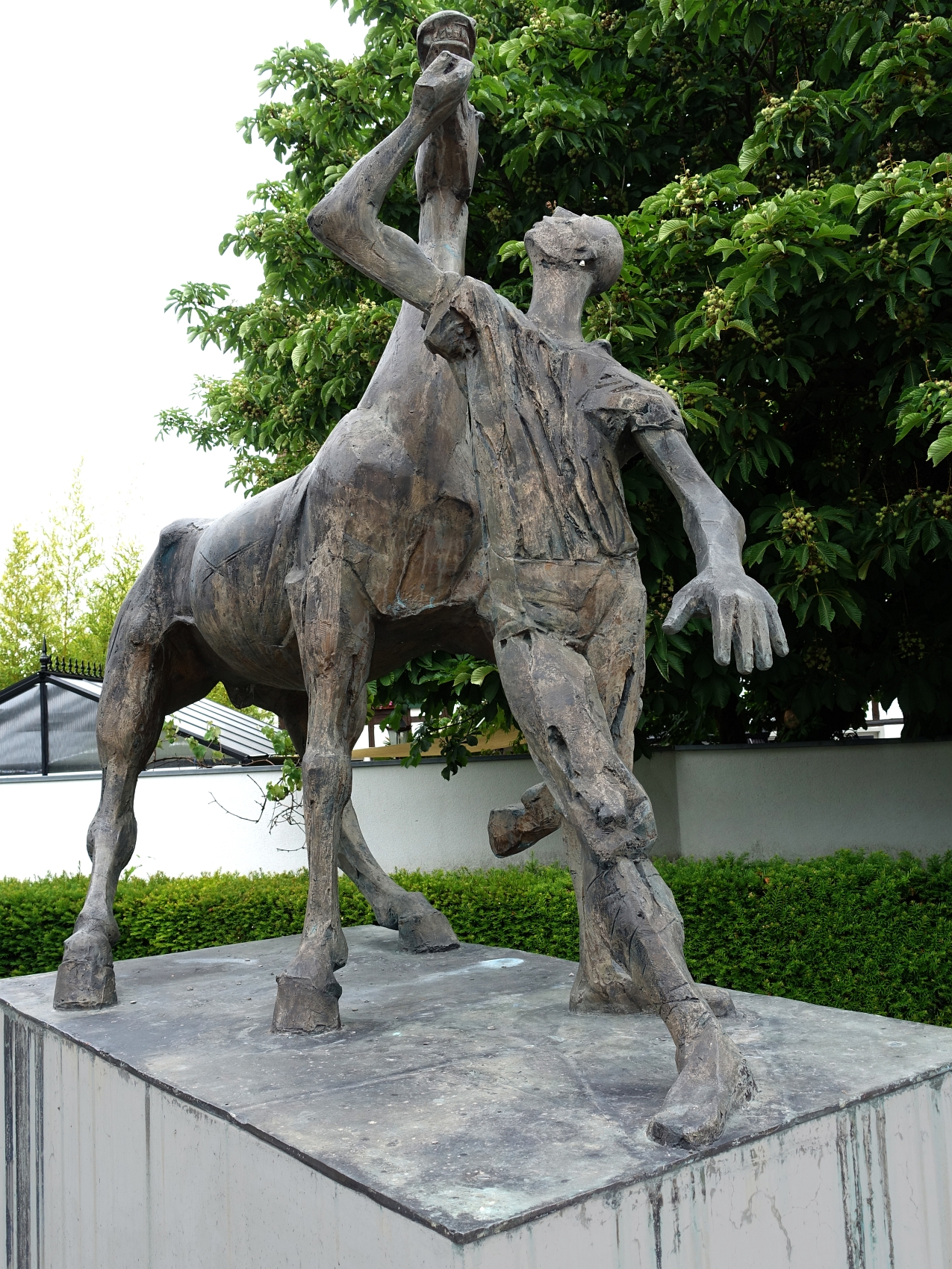 Denkmal (1957) für Jean Hotz (1890-1969) Schweizer Minister, von Emilio Stanzani (1906-1977), Bildhauer. An der Stationstrasse 1, Uster, Schweiz